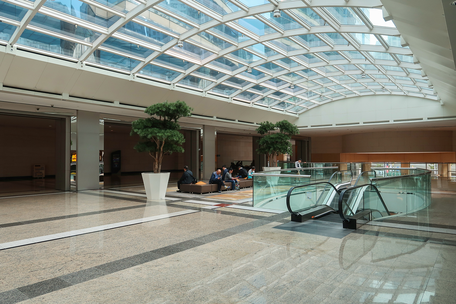 Cityplaza One Office Lobby